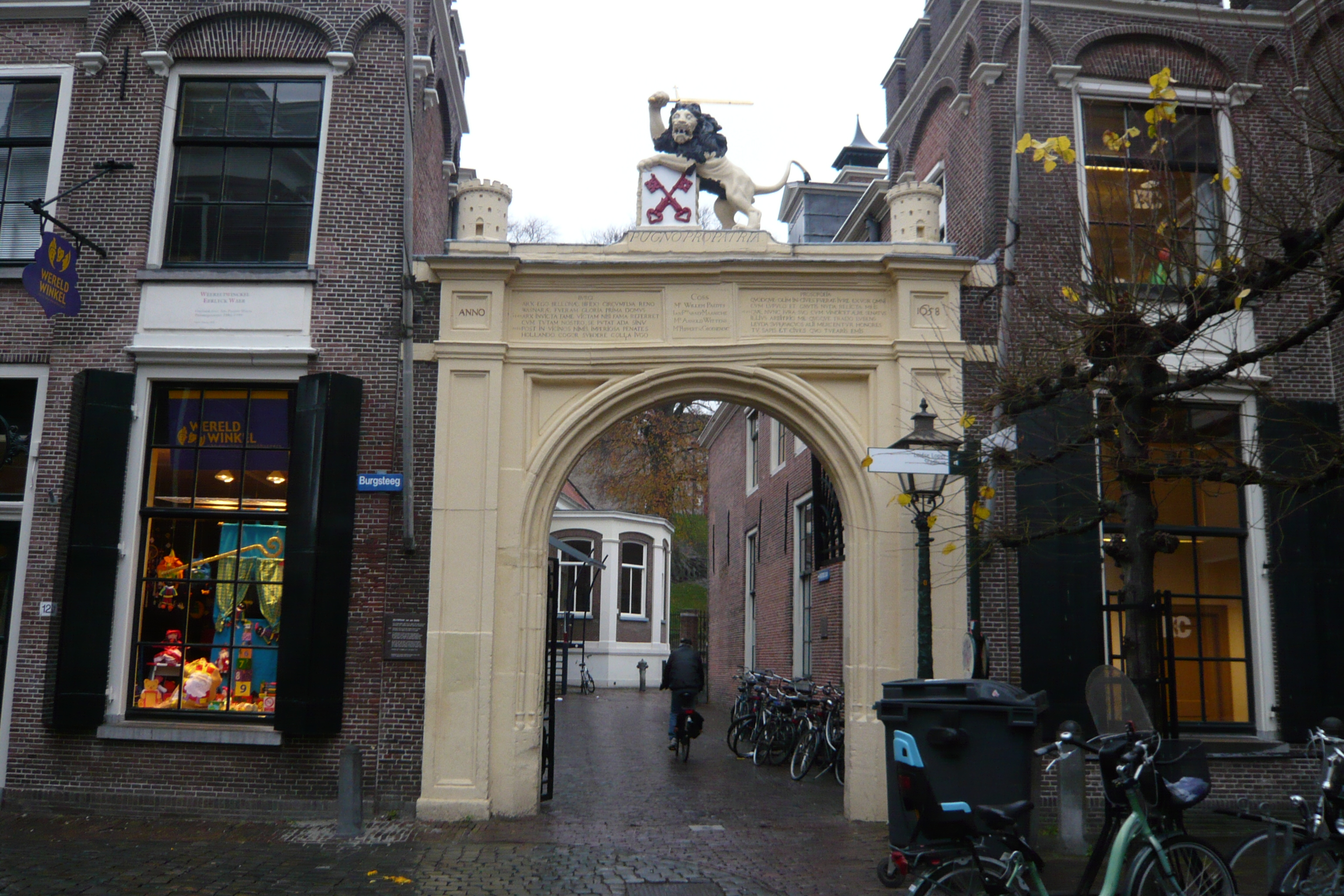 Old gate to De Burcht van Leiden. Plaque to the left shows text translated from the latin into middle